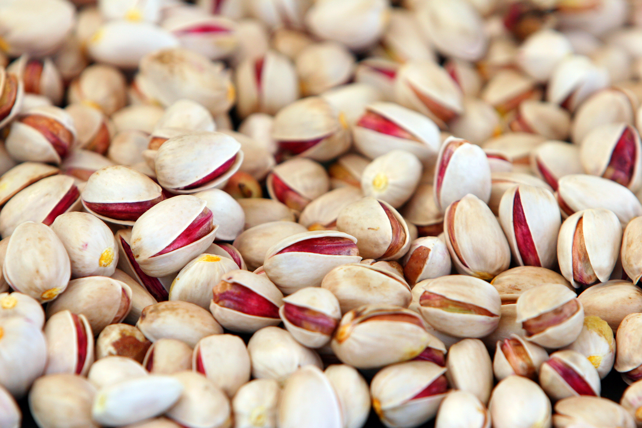 Pistachios Torbat-e-Heydariyeh pistachio processing factory, Razavi Khorasan Province, Iran - September 22, 2007 (1386/06/31) Photo by: Safa Daneshvar Thanks to: Faraz Saffron Company, Tehran, Iran